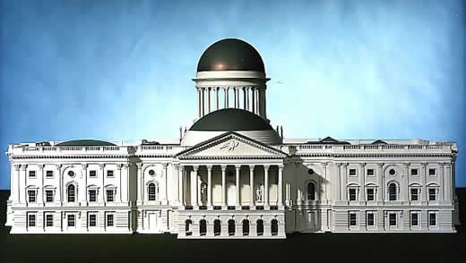 Model Showing Dr. William Thornton's Designs for the Capitol: A domed rotunda based on the ancient Roman temple called the Pantheon is the central feature of Thornton's composition. It is flanked by identical wings: one for the Senate and one for the House of Representatives. This model shows how the original Capitol would have looked if Thornton's design had been carried out unaltered by those in charge of its construction.